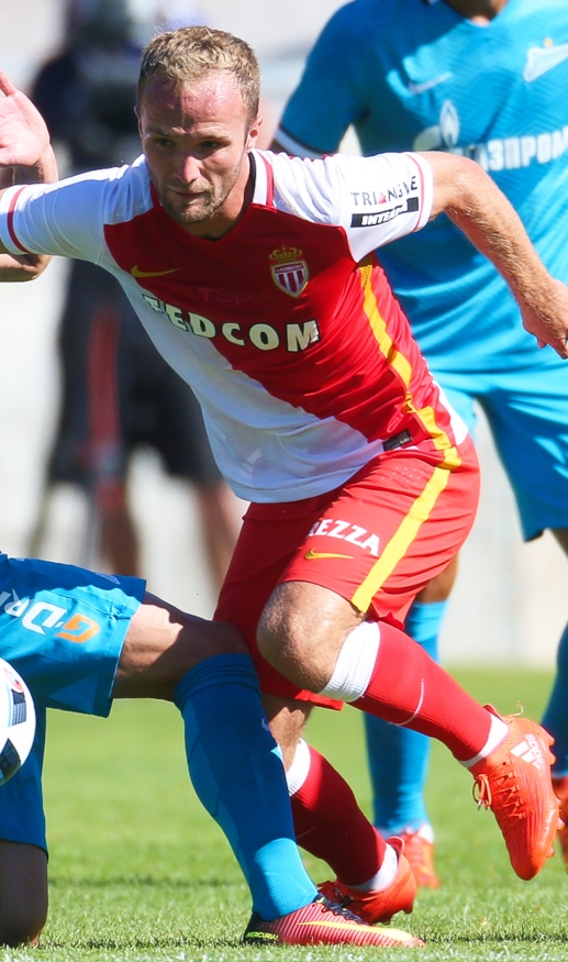 Valère Germain